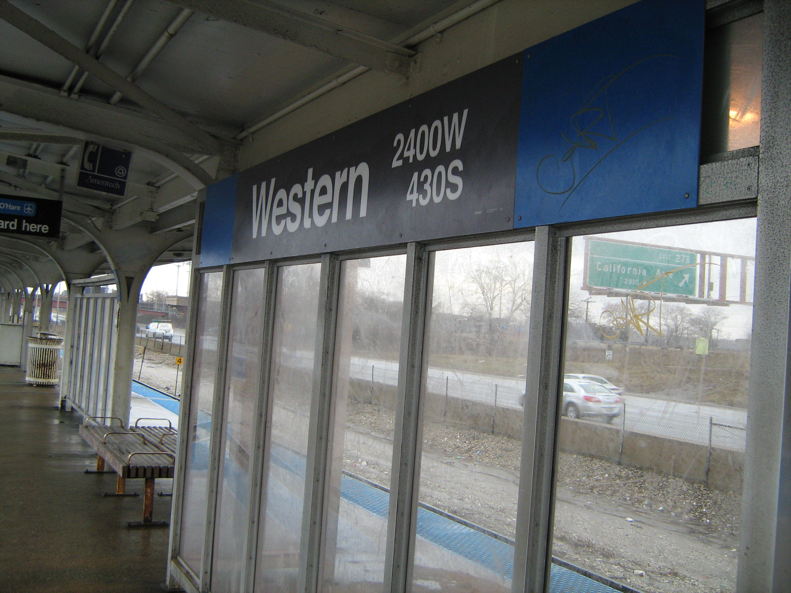 Western CTA Blue Line (Congress Branch)